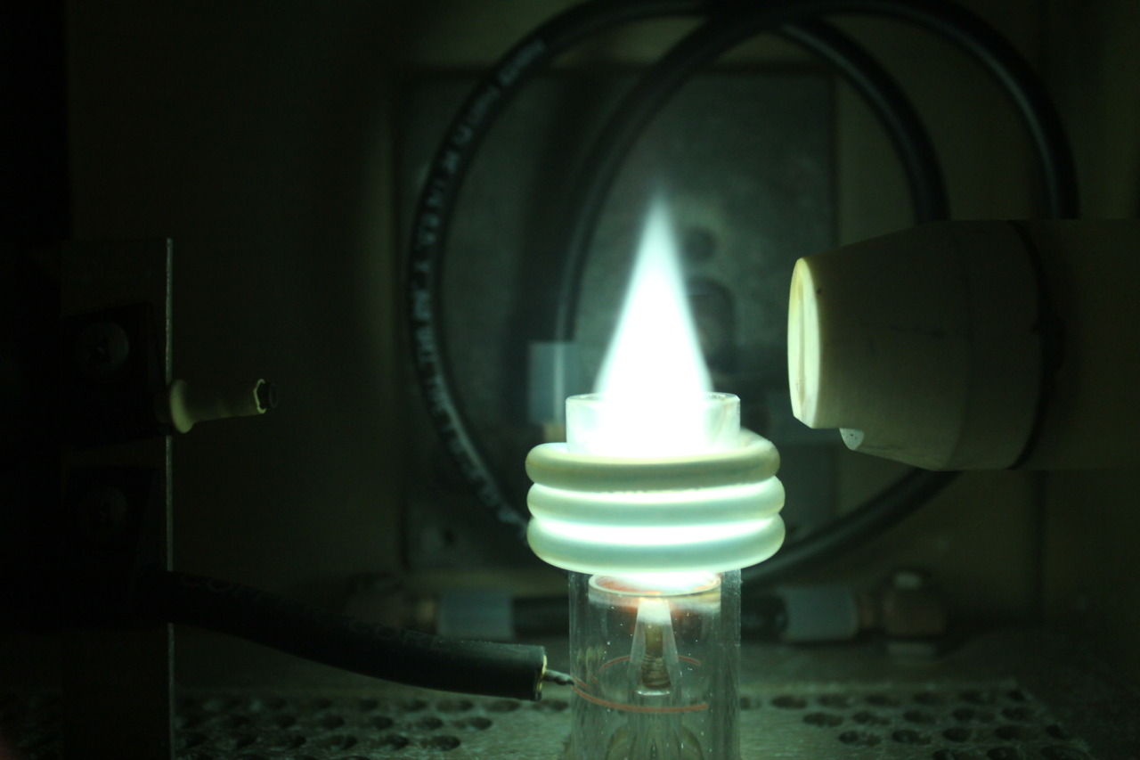 A close-up of a Thermo Jarrel Ash Atomscan 16 inductively coupled argon plasma's torch